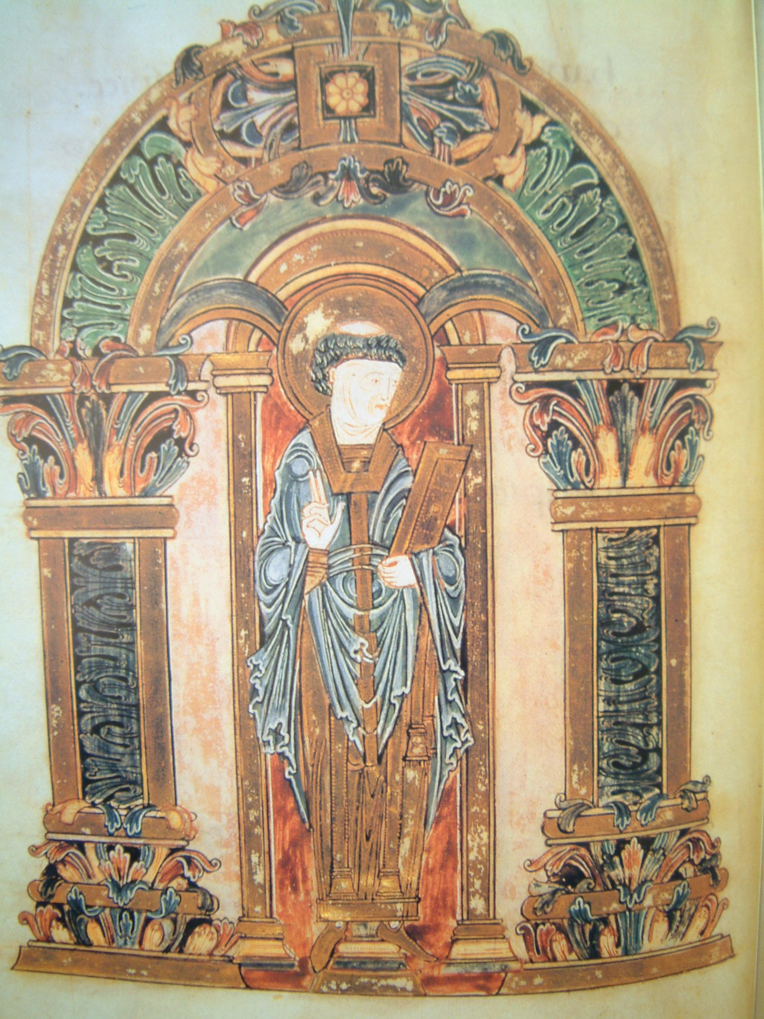 Saint Swithim of Winchester from the Benedictional of St. Æthelwold, illuminated manuscript in the British Library